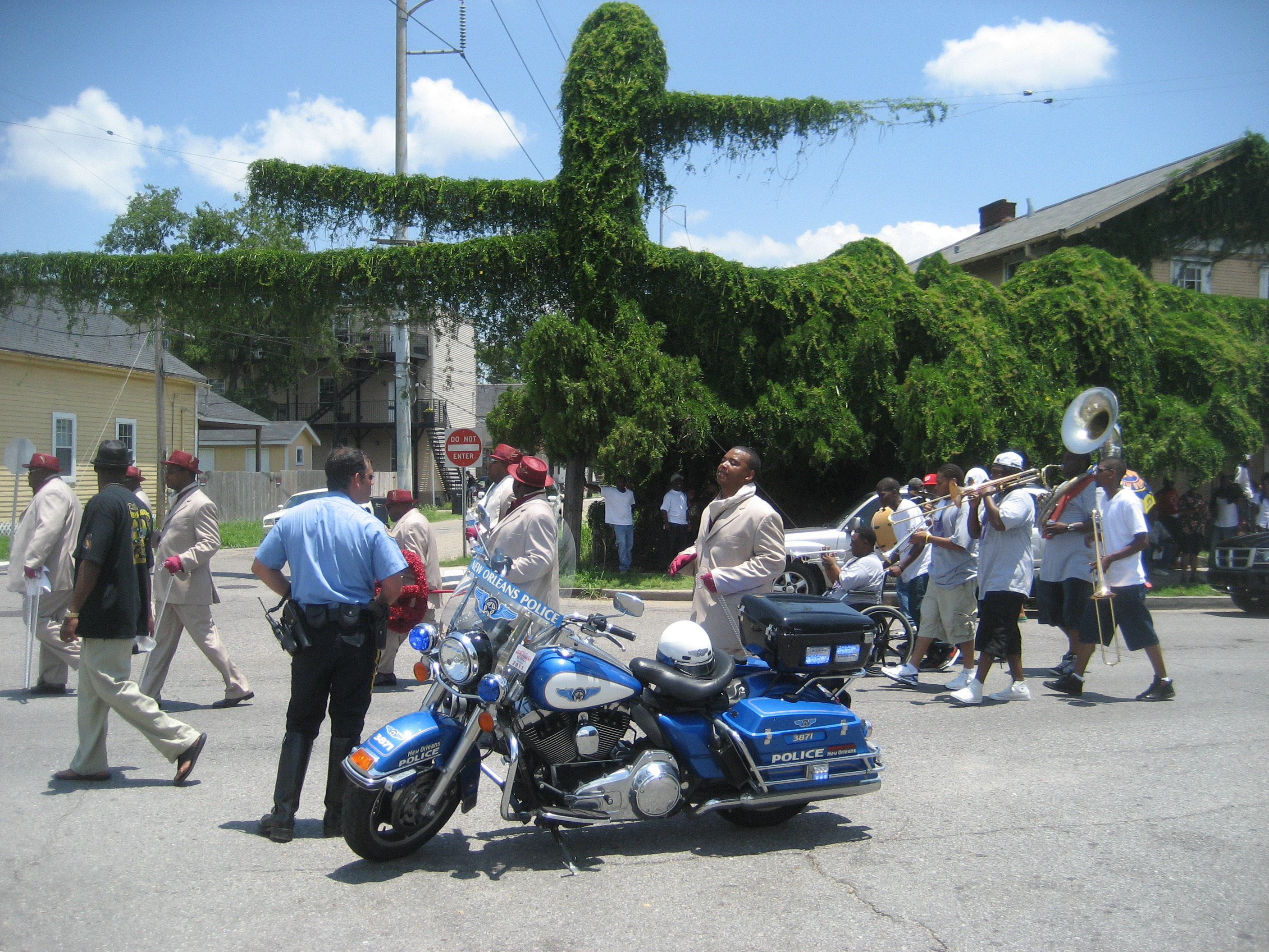 New Orleans: Zulu Social Aid & Pleasure Club 101 Anniversary Parade on St. Bernard Avenue.